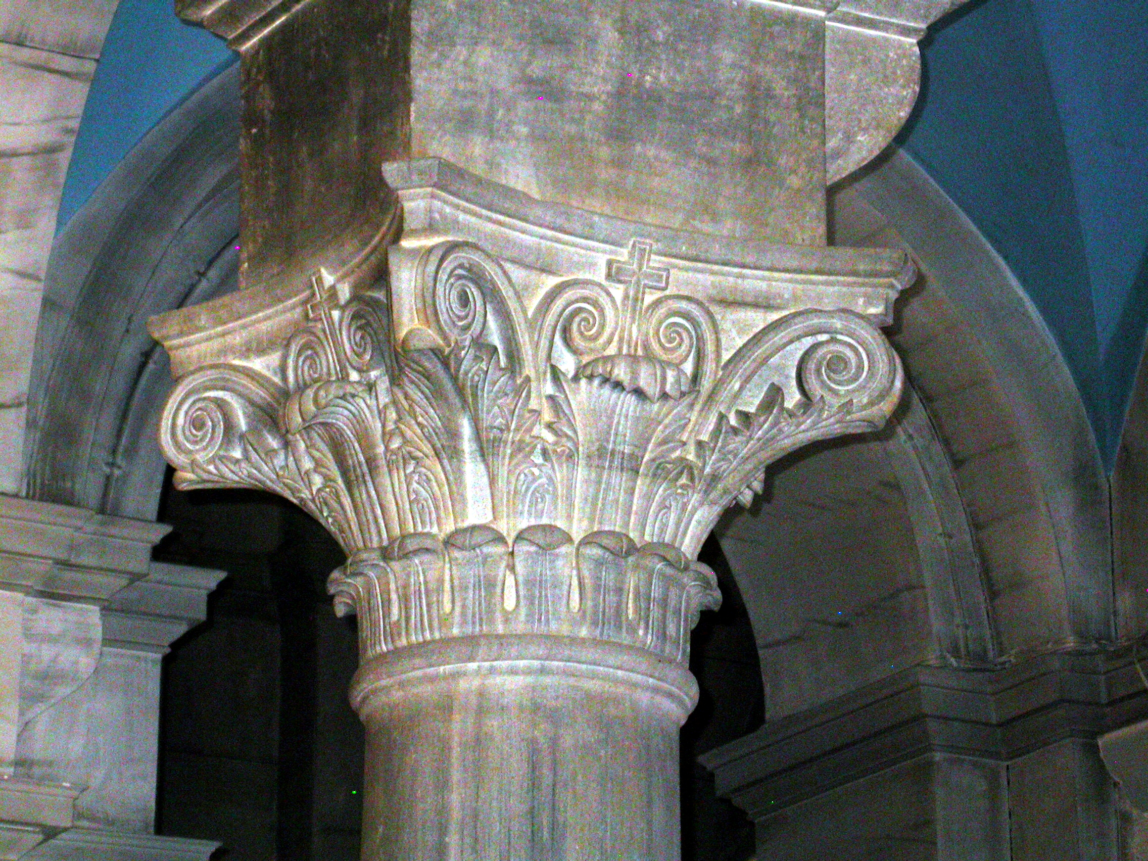 Marble sculptured capital inside the Holy Trinity of Kaloxylos, Naxos, Greece